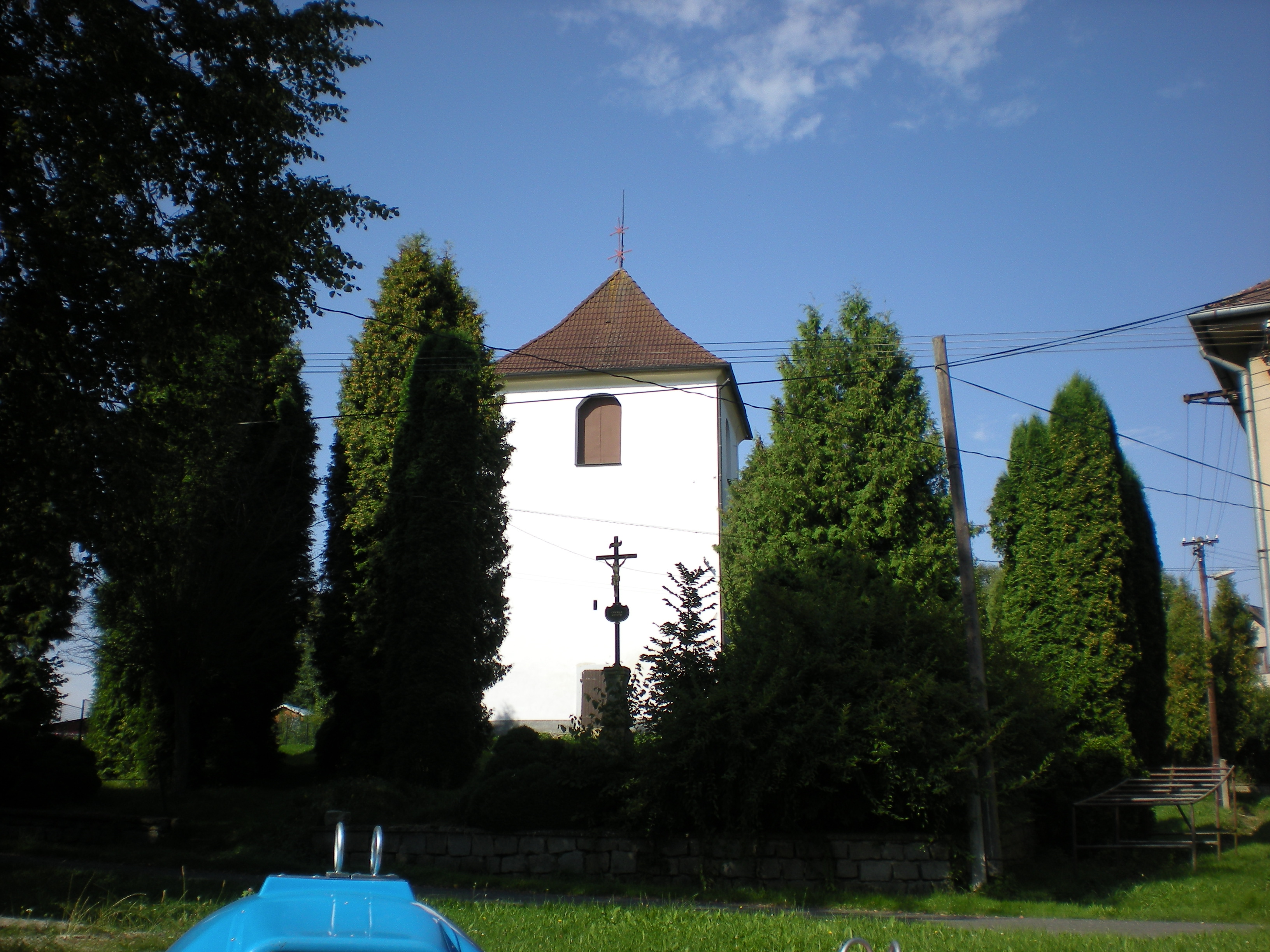 A part of church that is visible from a village green in Snět.